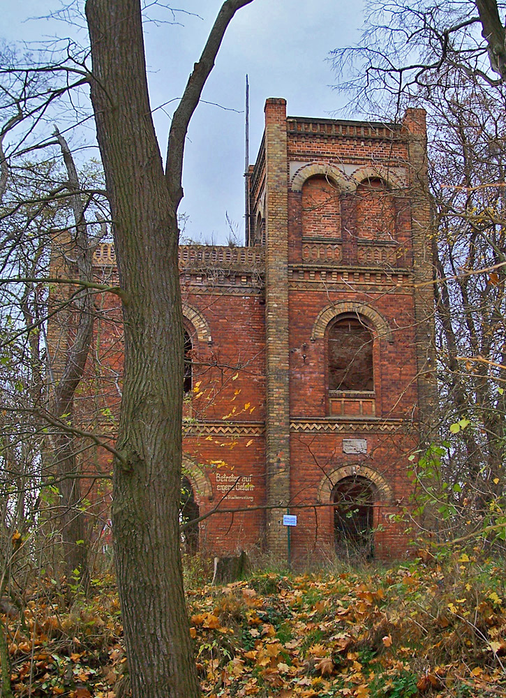 The old ruin on the Hummelberg at Schönebeck - once observation tower and observatory.